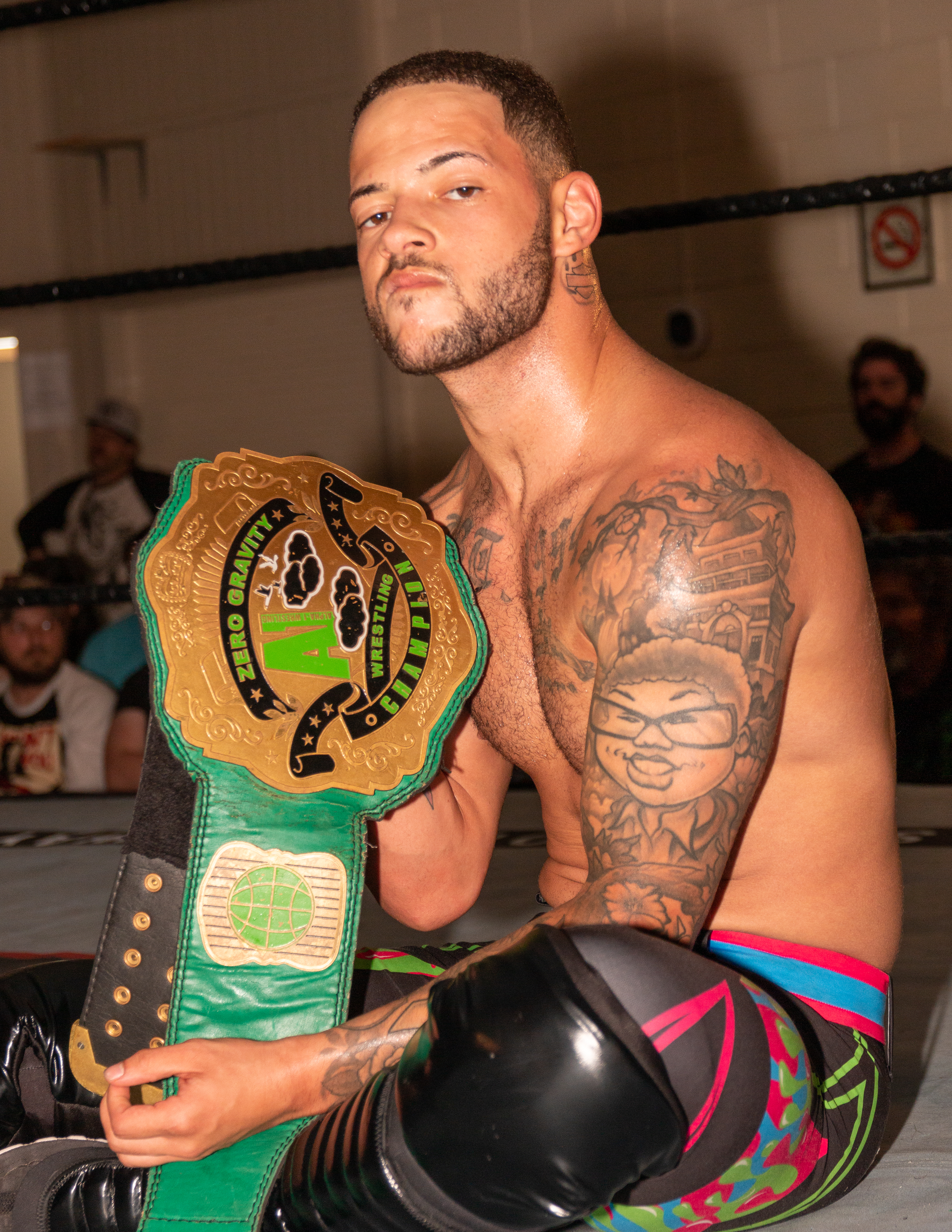 Pro wrestler Trey Miguel posing in ring with his newly-won Zero Gravity championship at an Alpha-1 Wrestling show at Hamilton, ON